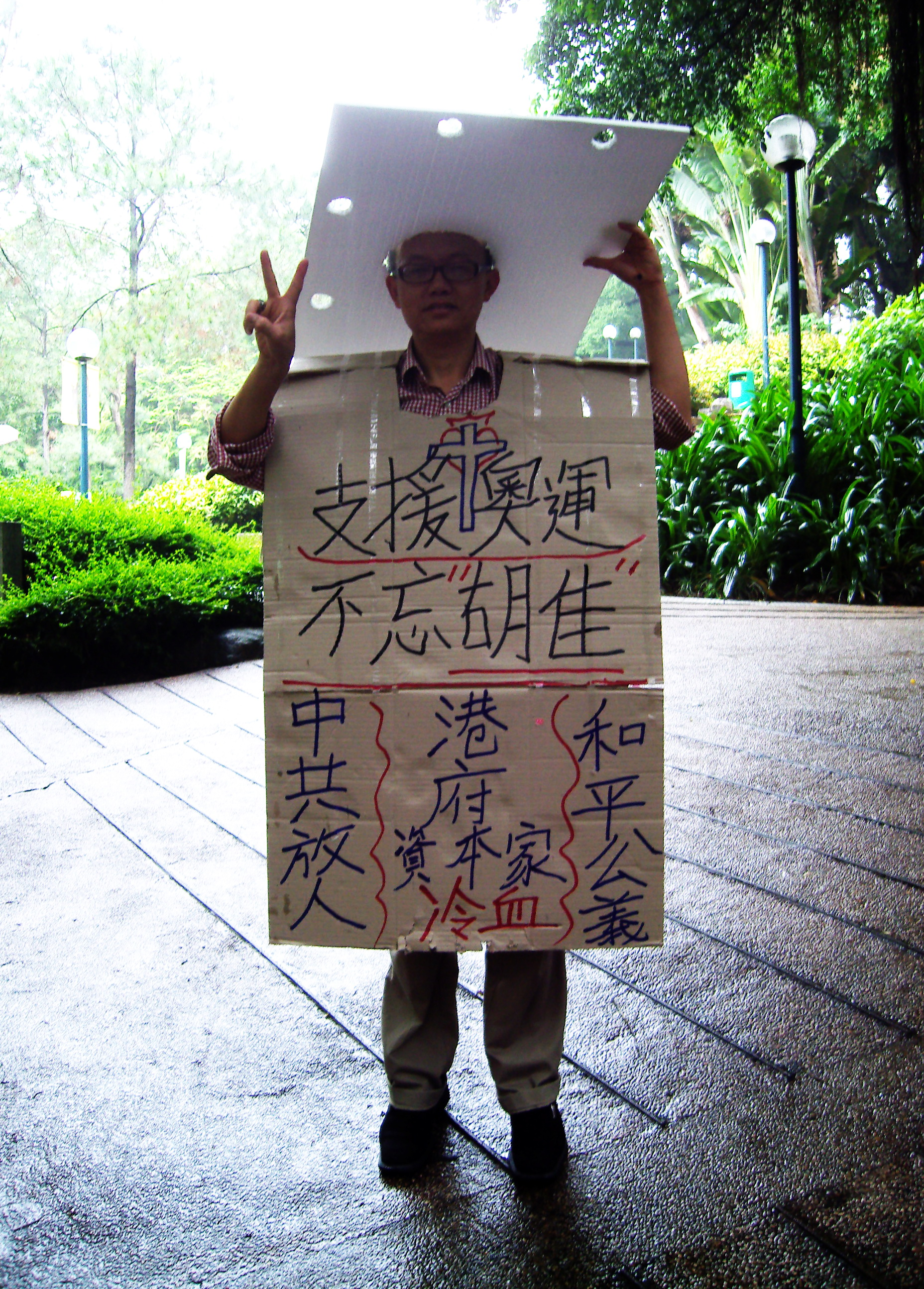 2008 Summer Olympics Torch in Tsim Sha Tsui, Hong Kong.